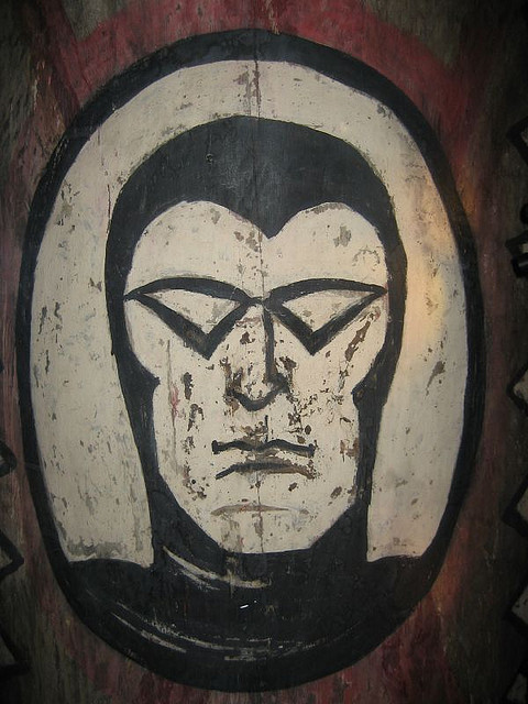 Example of tribal pop art, Phantom image on Papua New Guinea shield.